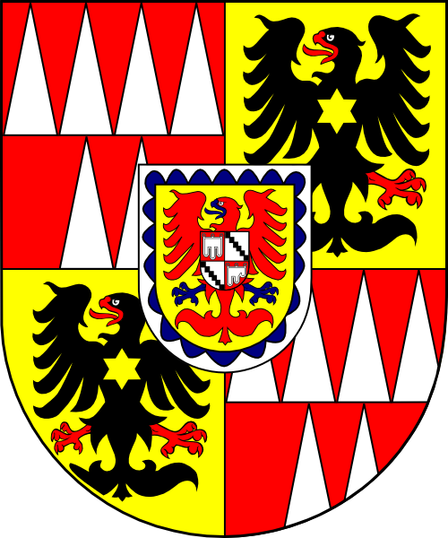 Coat of arms (shield only) of Friedrich Egon cardinal von Fürstenberg, archbishop of Olomouc, Czech republic (1853 - 1892).